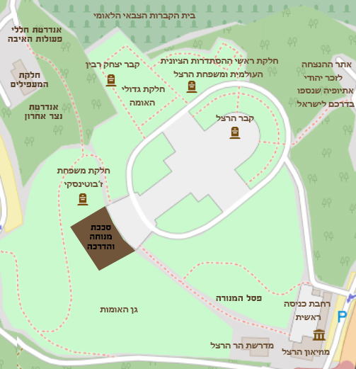 Map of Herzl's grave